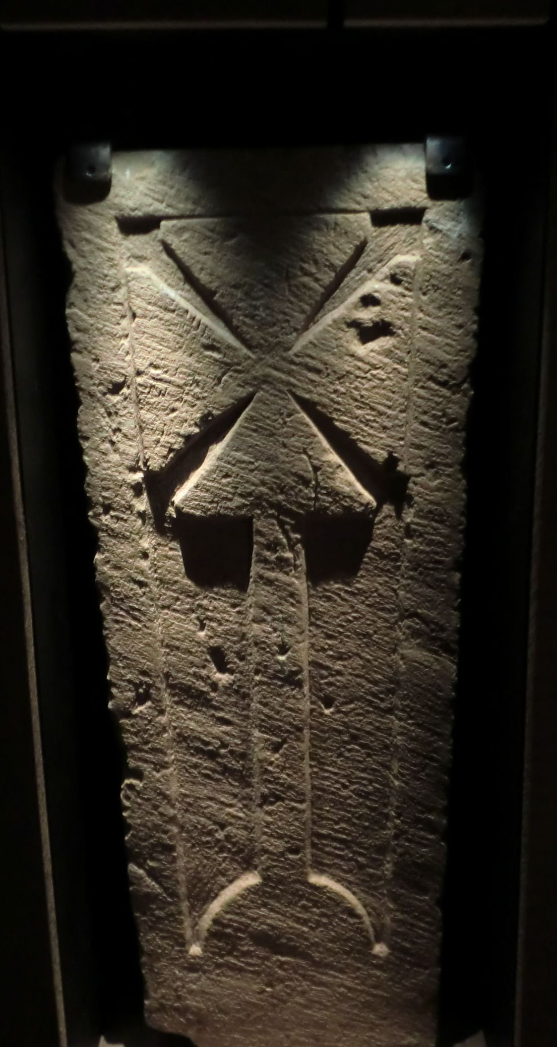 Staff cross stone, in swedish "Stavkorshäll", from 12th to 13th century. Found at the cemetery of the monastery S:t Olof of the Dominican order in Skara, Sweden. Stone on display at Skaraborgs Länsmuseum, Skara.